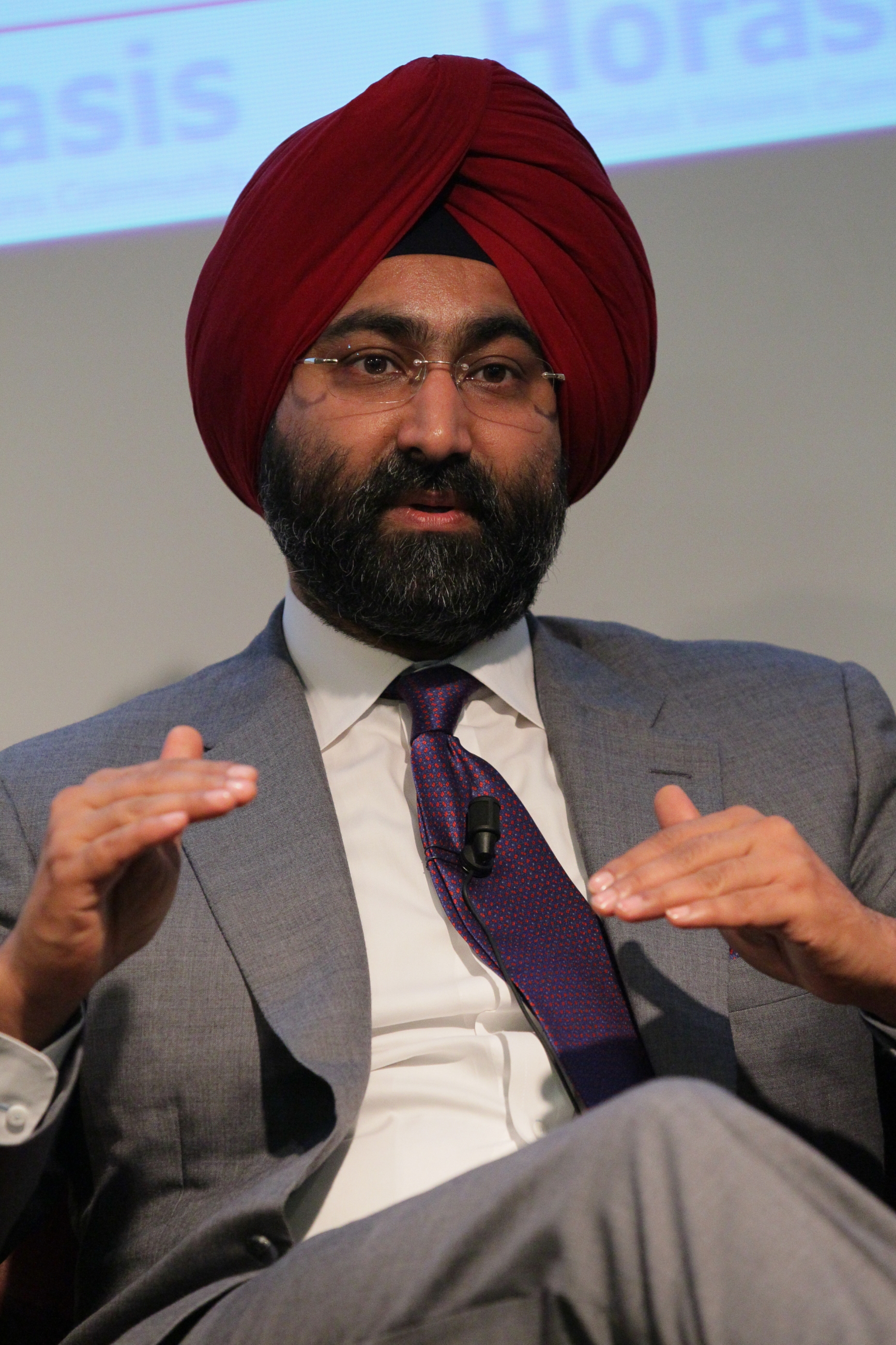 Malvinder M. Singh, Chairman, Fortis Healthcare, India Horasis Global India Business Meeting 2011